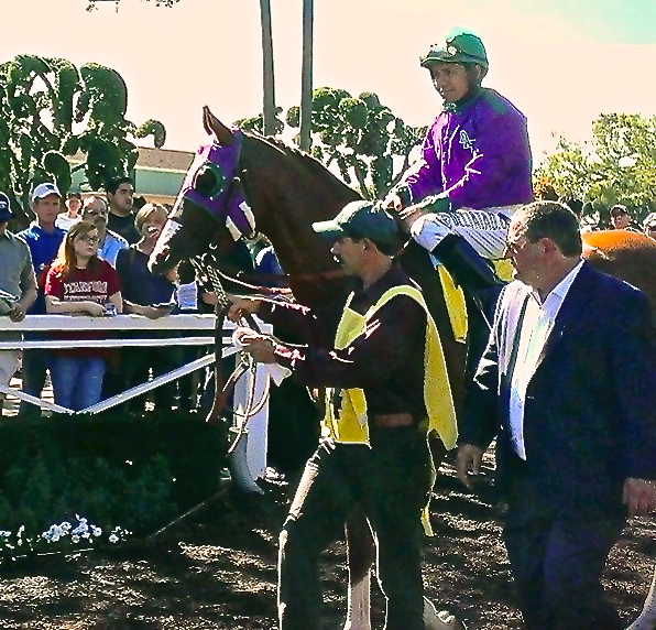 California Chrome at the 2014 San Felipe with Victor Espinoza on board and Alan Sherman.